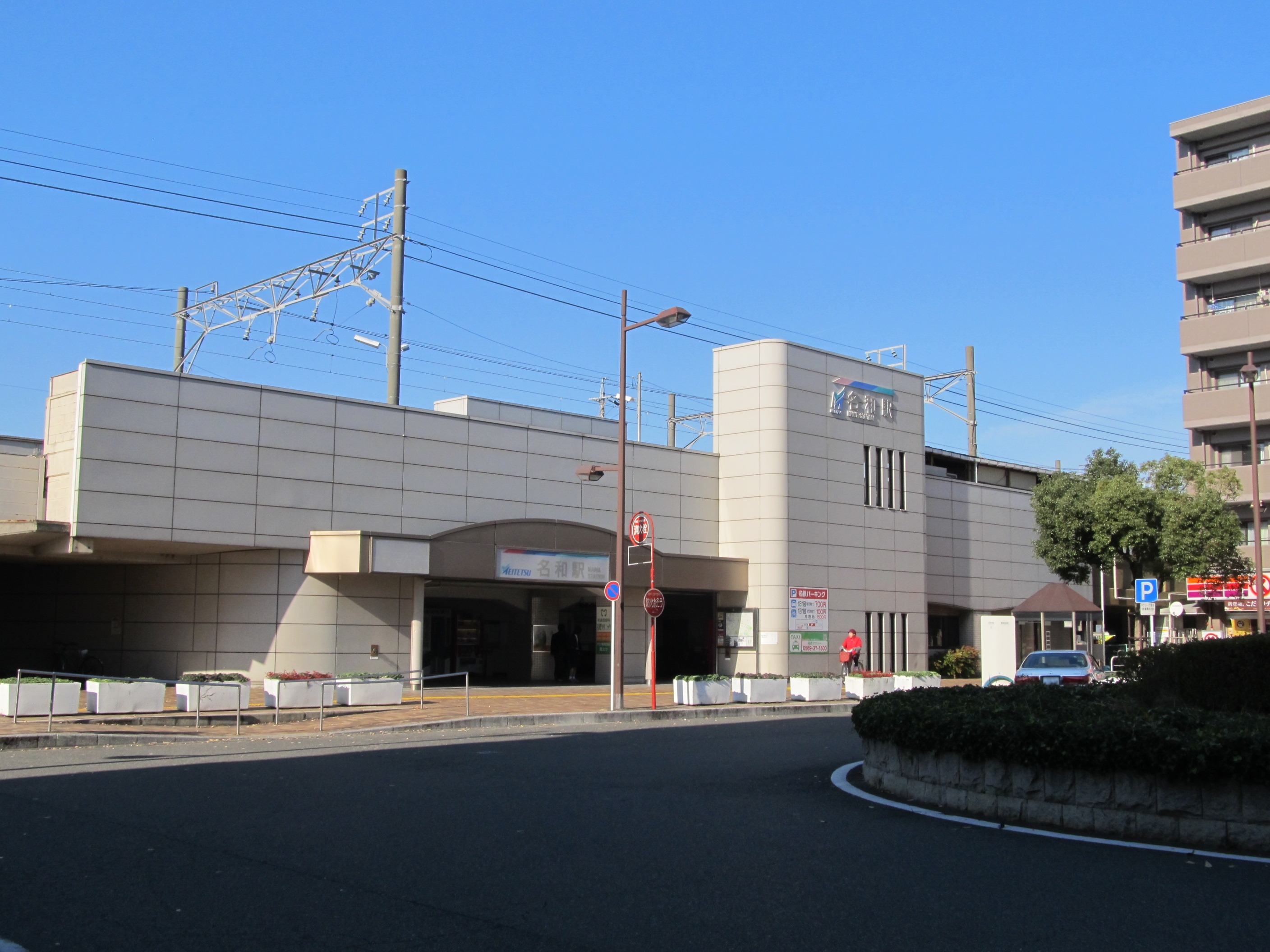 Nagoya Railroad Tokoname Line Nawa Station Building